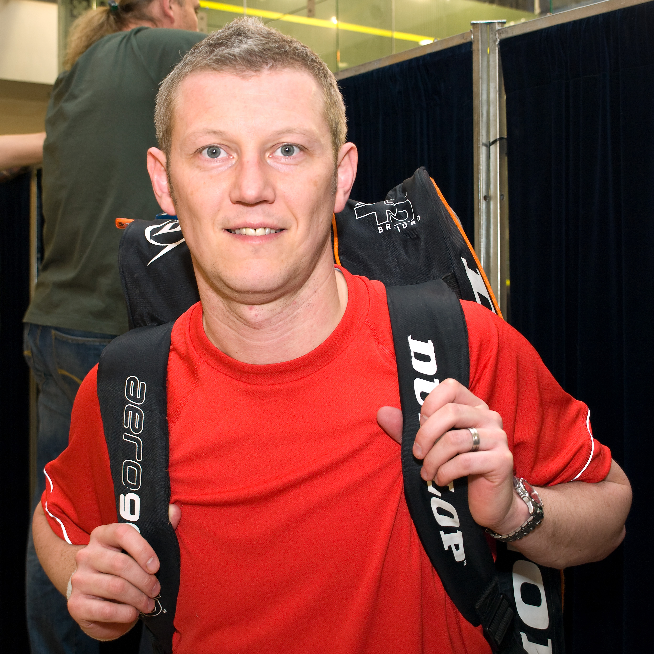 English squash player Simon Parke after an exhibition match in Prague